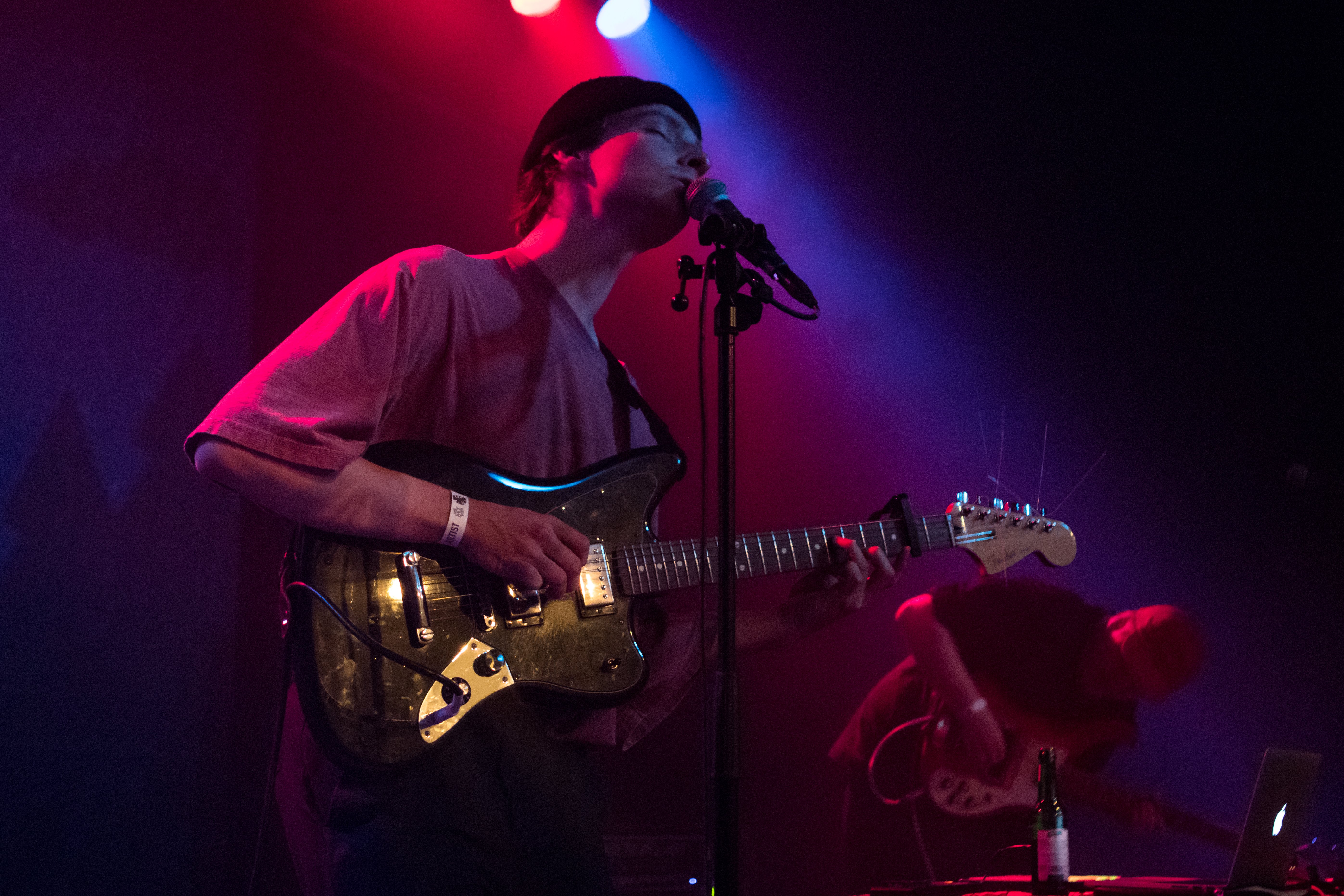 Her's at Way Back When Festival 2017 in Dortmund